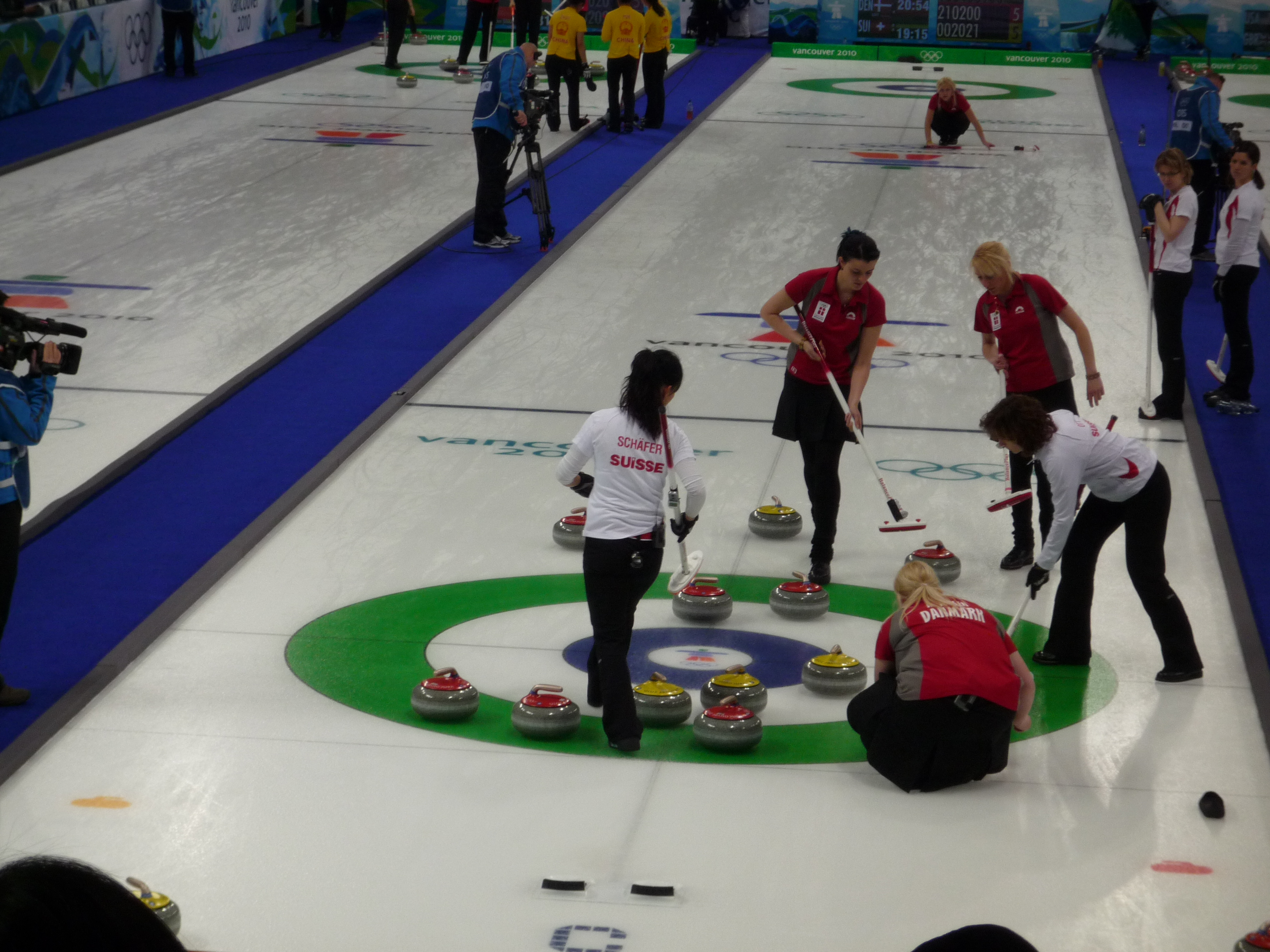 Women's match Switzerland - Denmark, 7th end